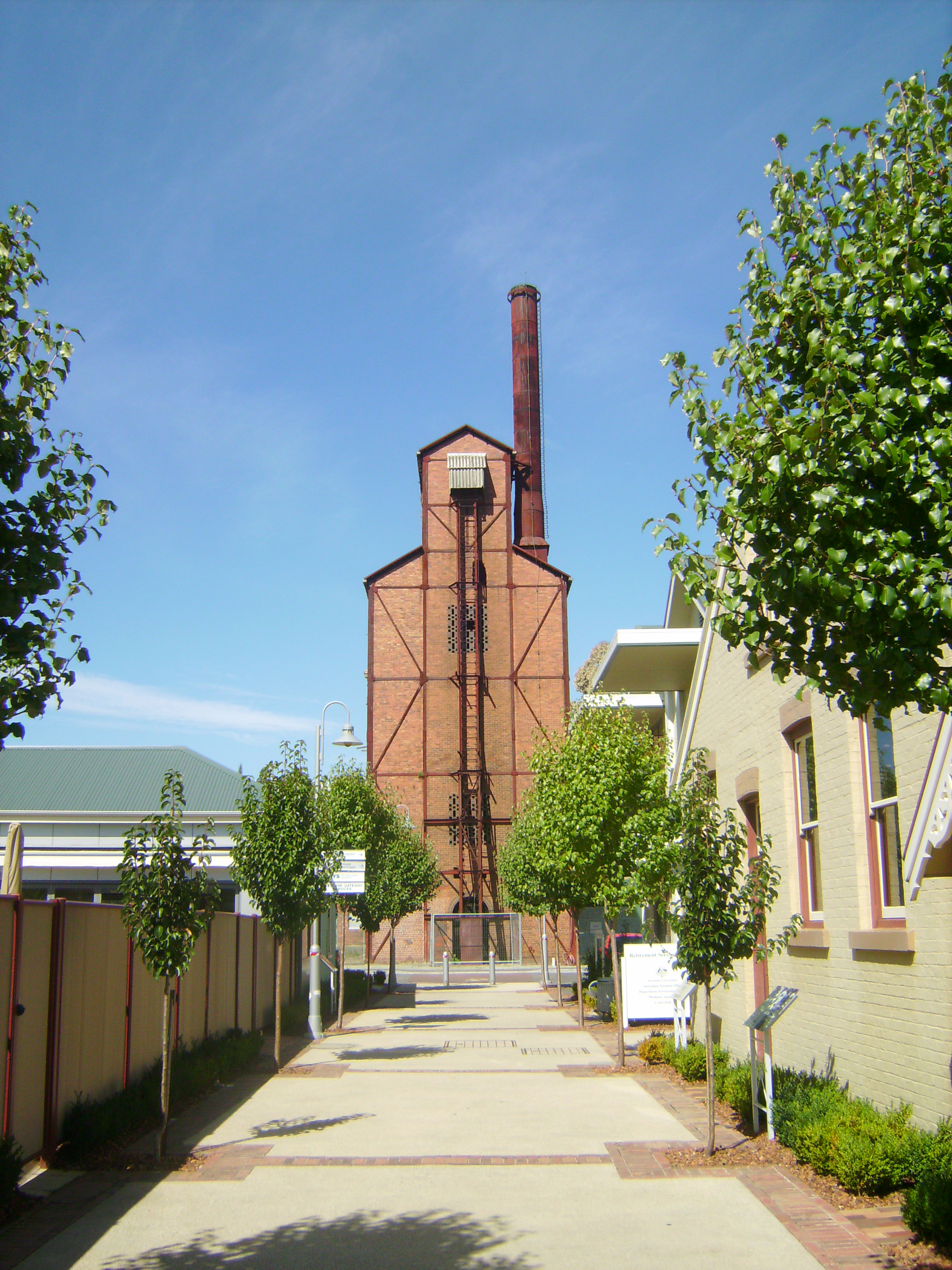 The Vertical Retort from the newly restored Launceston Gas Works and Centerlink complexe